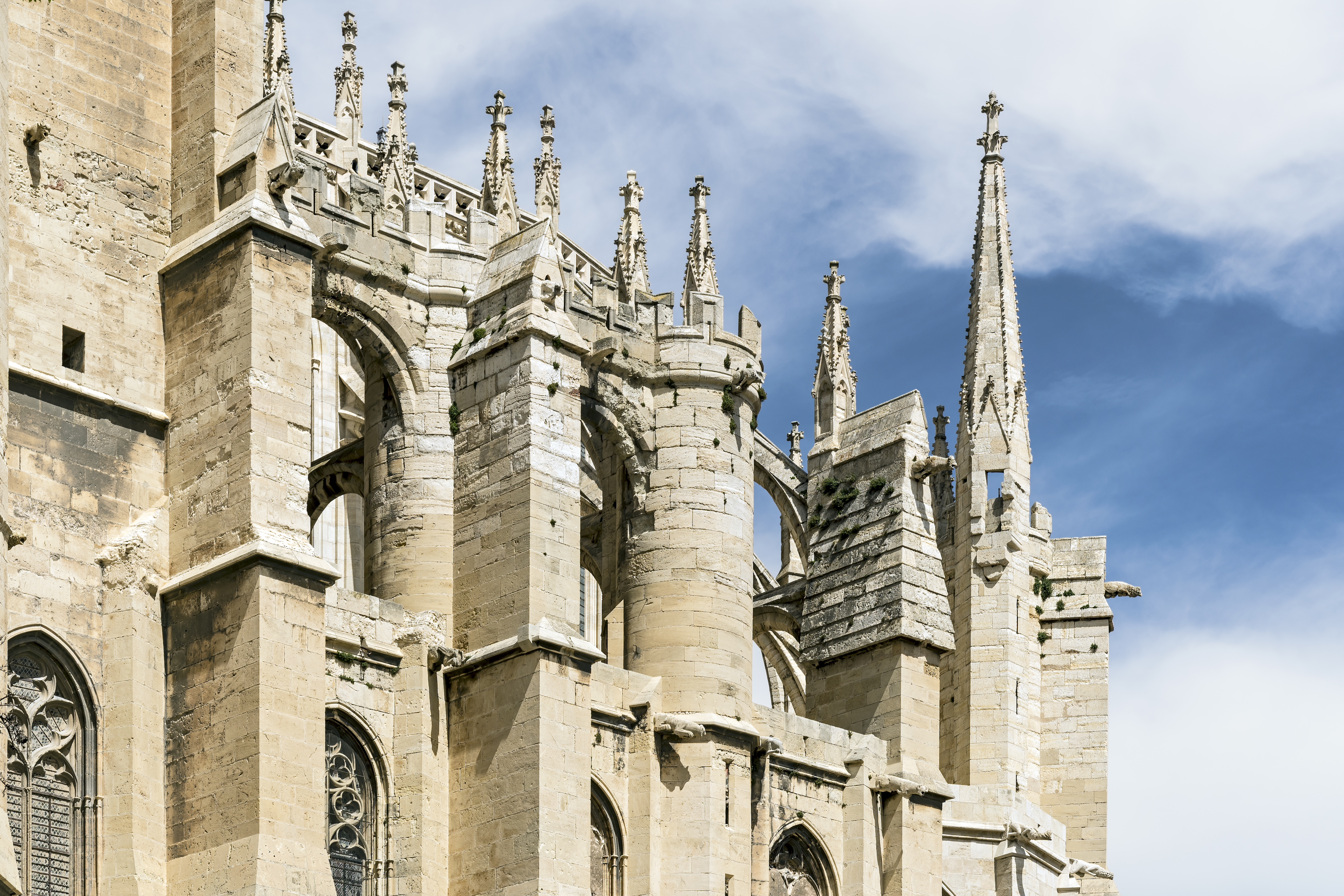 Cathedral Saint-Just-et-Saint-Pasteur Narbonne. Southern exposure: the flying buttresses of the choir.